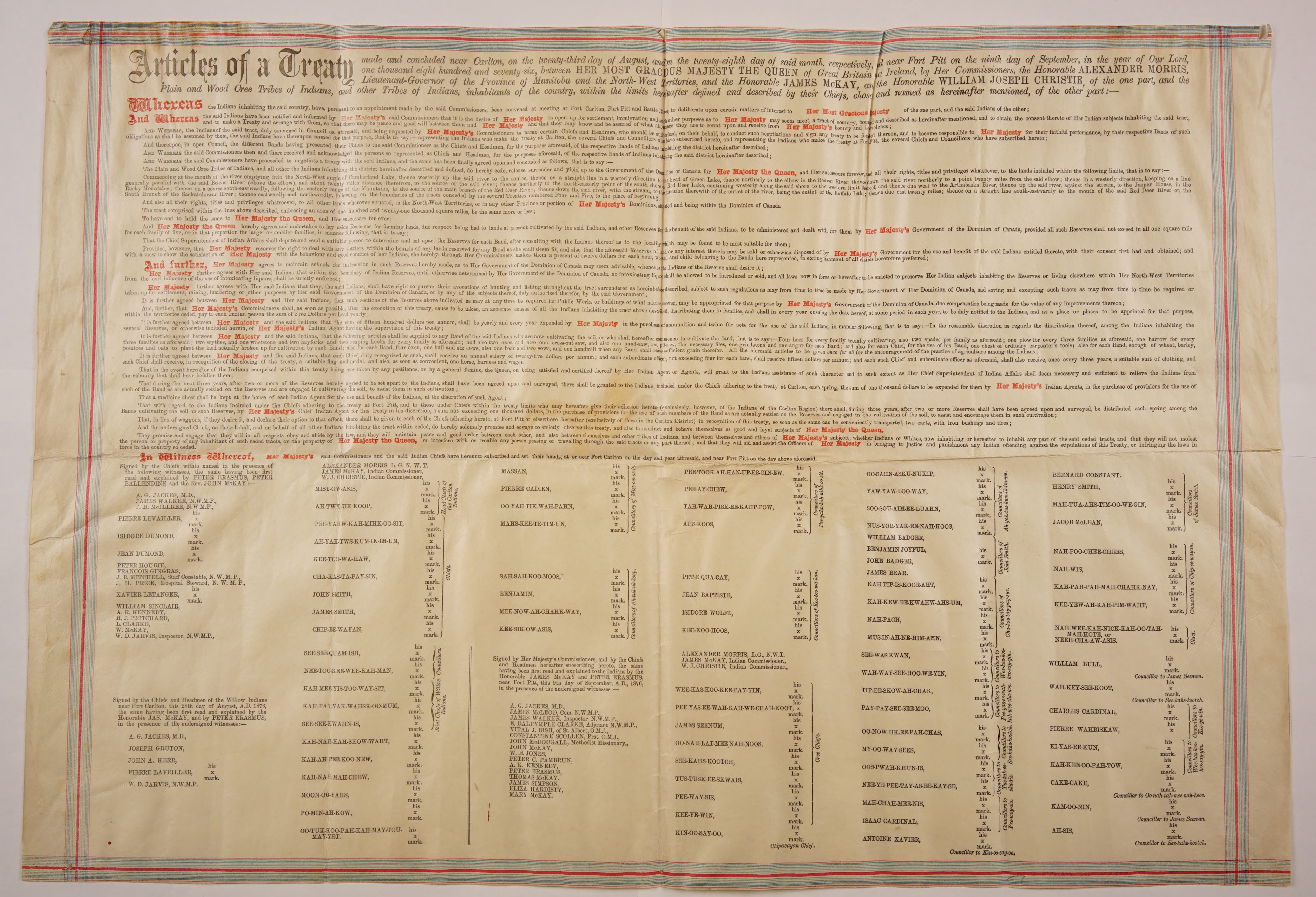 Treaty No. 6 (1876 August 23) Articles of a treaty made and concluded near Carlton, on the twenty-third day of August, and on the twenty-eighth day of said month, respectively, and near Fort Pitt on the ninth day of September, in the year of our Lord, one thousand eight hundred and seventy-six, between Her Most Gracious Majesty the Queen of Great Britain and Ireland, by Her Commissioners, the Honorable Alexander Morris, Lieutenant-Governor of the province of Manitoba and the North-West Territories, and the Honorable James McKay, and the Honorable William Joseph Christie, of the one part, and the Plain and Wood Cree Tribes of Indians, and other tribes of Indians, inhabitants of the country, within the limits hereafter defined and described by their Chiefs, chosen and named as hereinafter mentioned, of the other part. Signed: At or near Fort Carlton on the day and year aforesaid, and near Fort Pitt on the day above aforesaid. Presentation copy of the original, 1 sheet; 50 x 72 cm Printed on parchment. Text in black and red; blue and red border